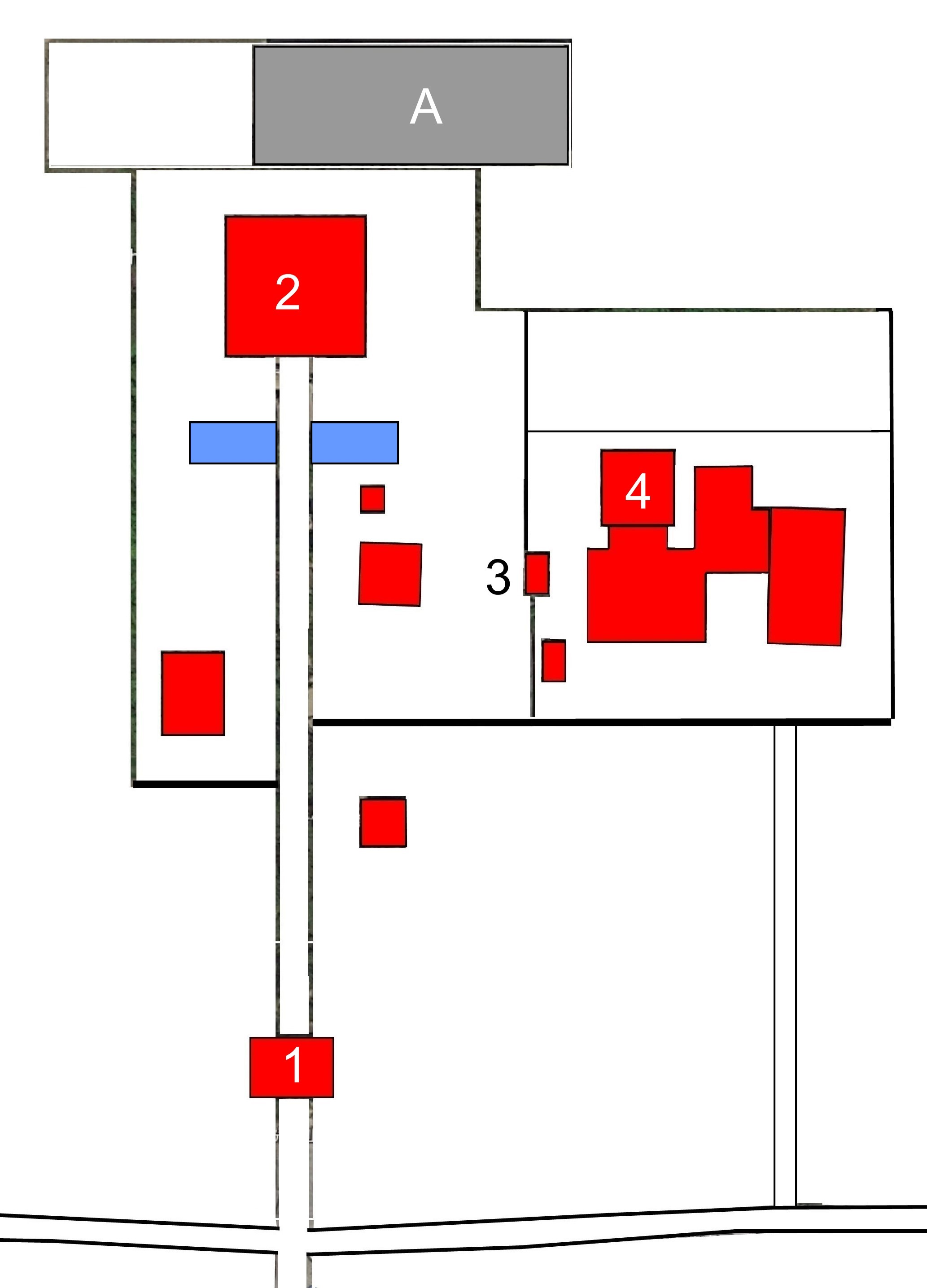 Layout of Sanuki Kokubunji